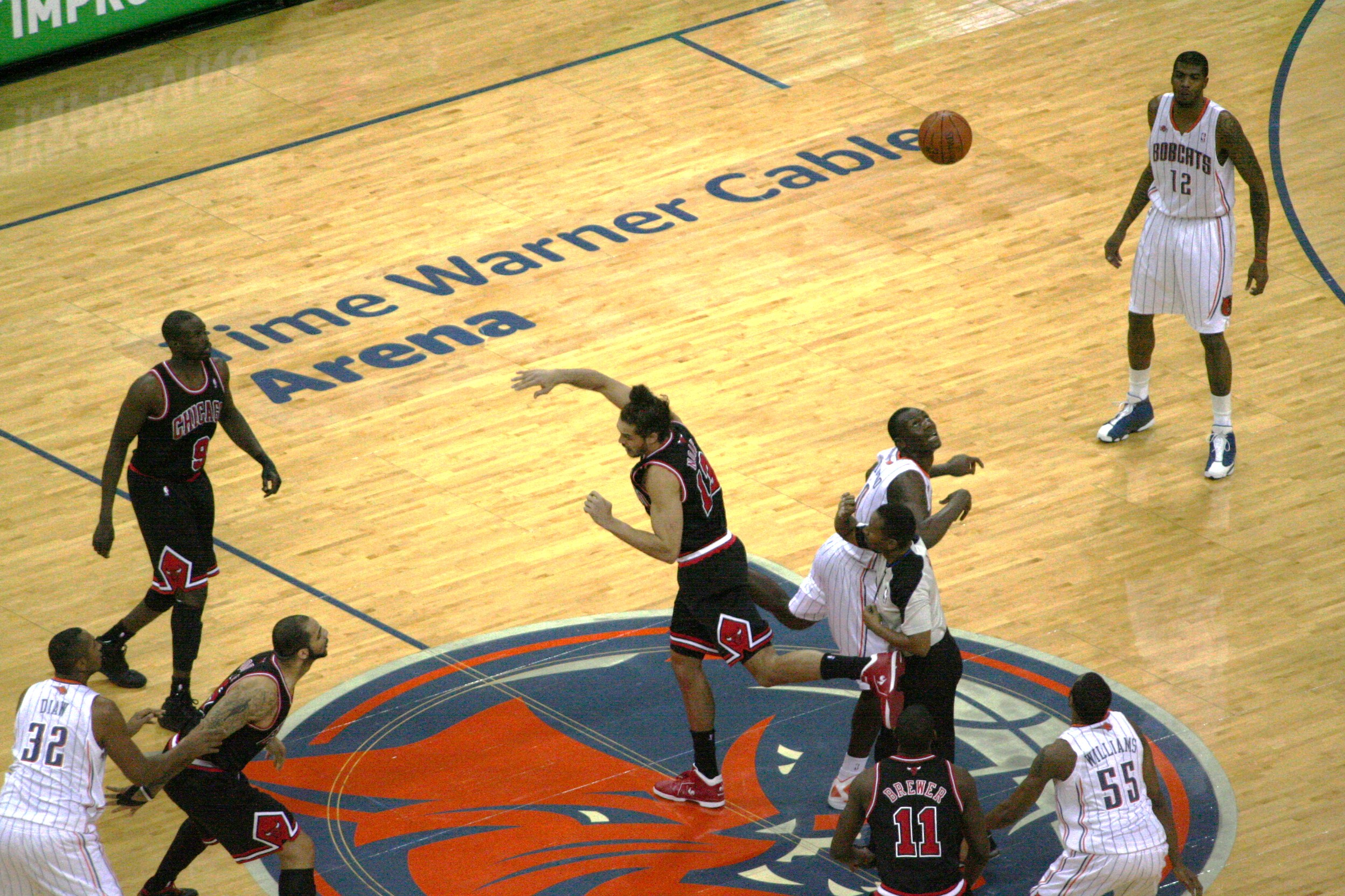 Jump ball before the Chicago Bulls/Charlotte Bobcats game on Feb. 10, 2012.